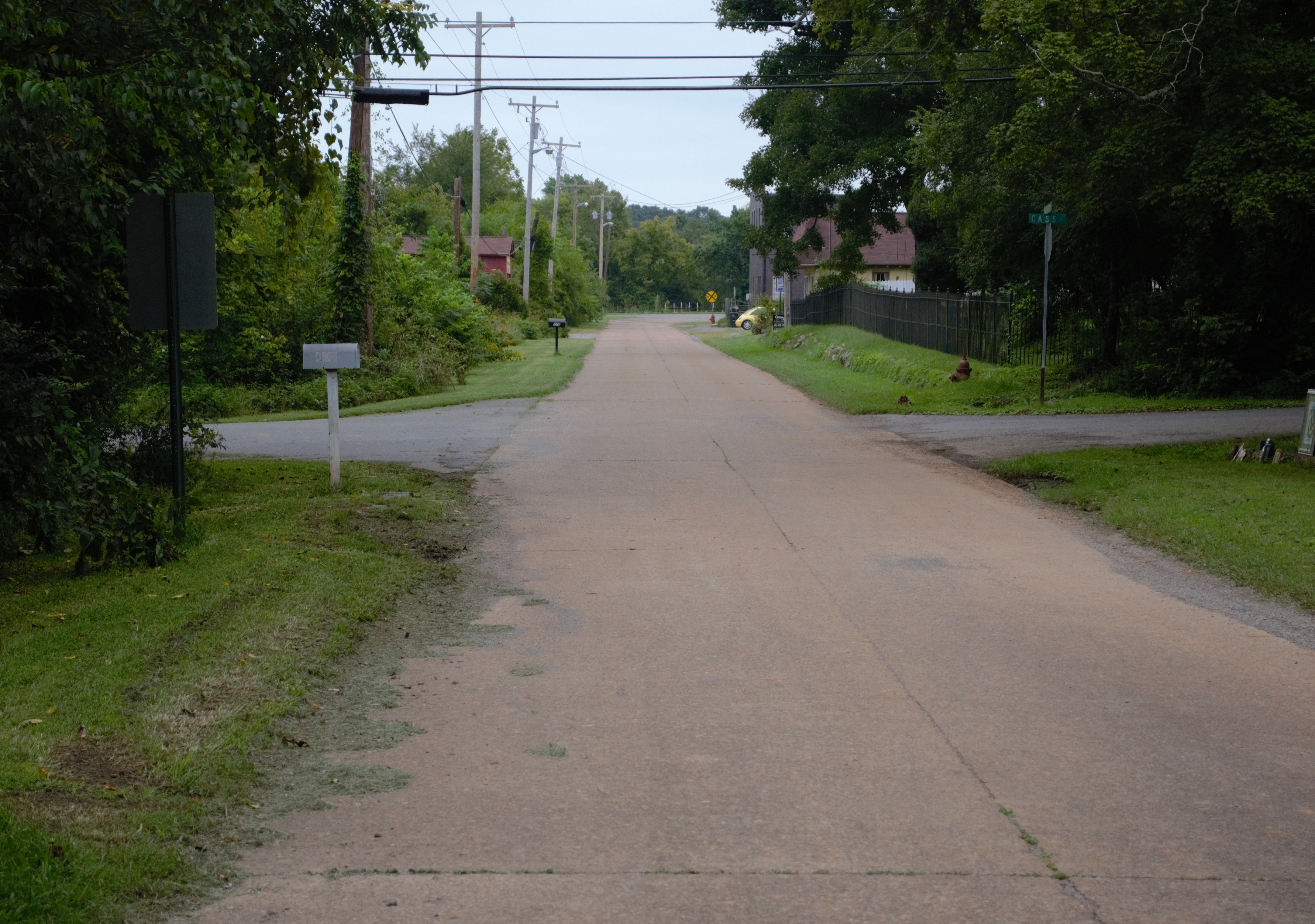 Cleveland to Charleston Concrete Highway